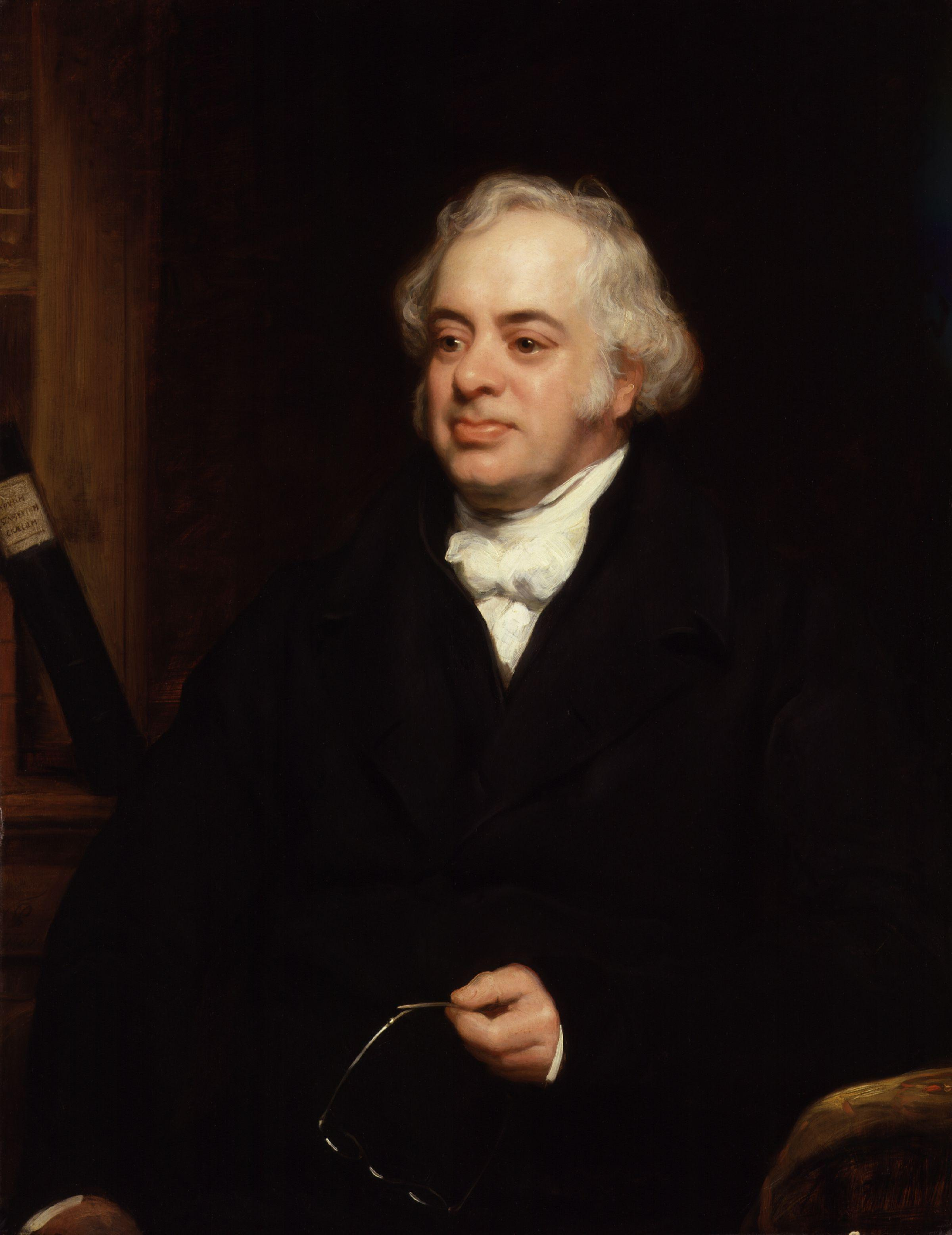 John Kentish, by Thomas Phillips (died 1845). All images in this batch have been confirmed as author died before 1939 according to the official death date listed by the NPG.